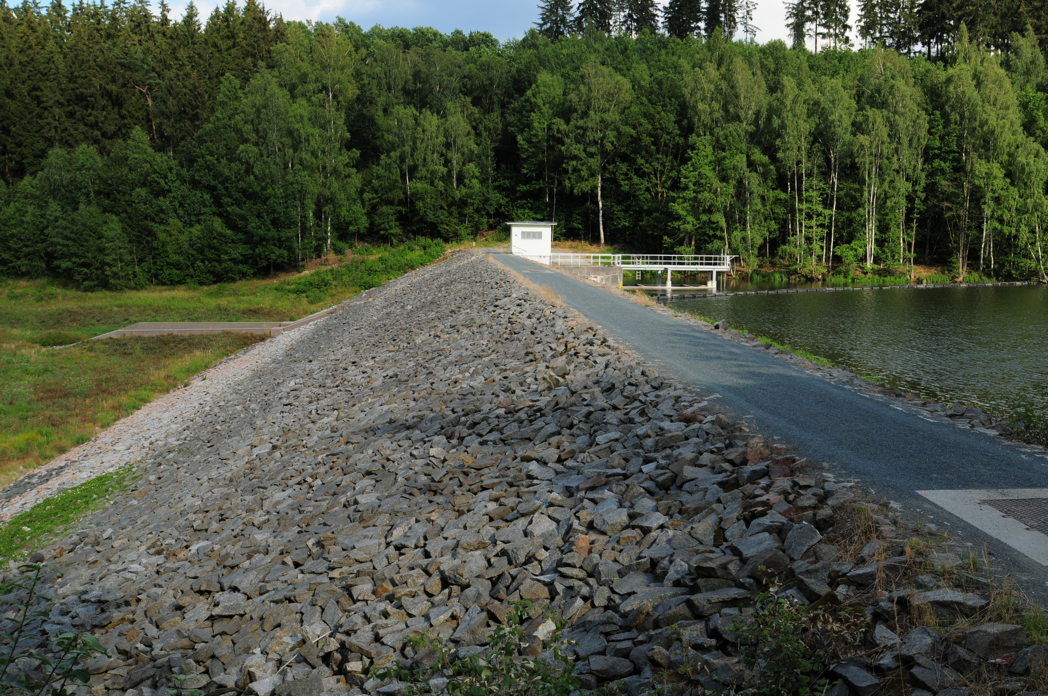 Ramoldsreuth forebay of the Dröda reservoir (district Vogtlandkreis, Free State of Saxony, Germany)